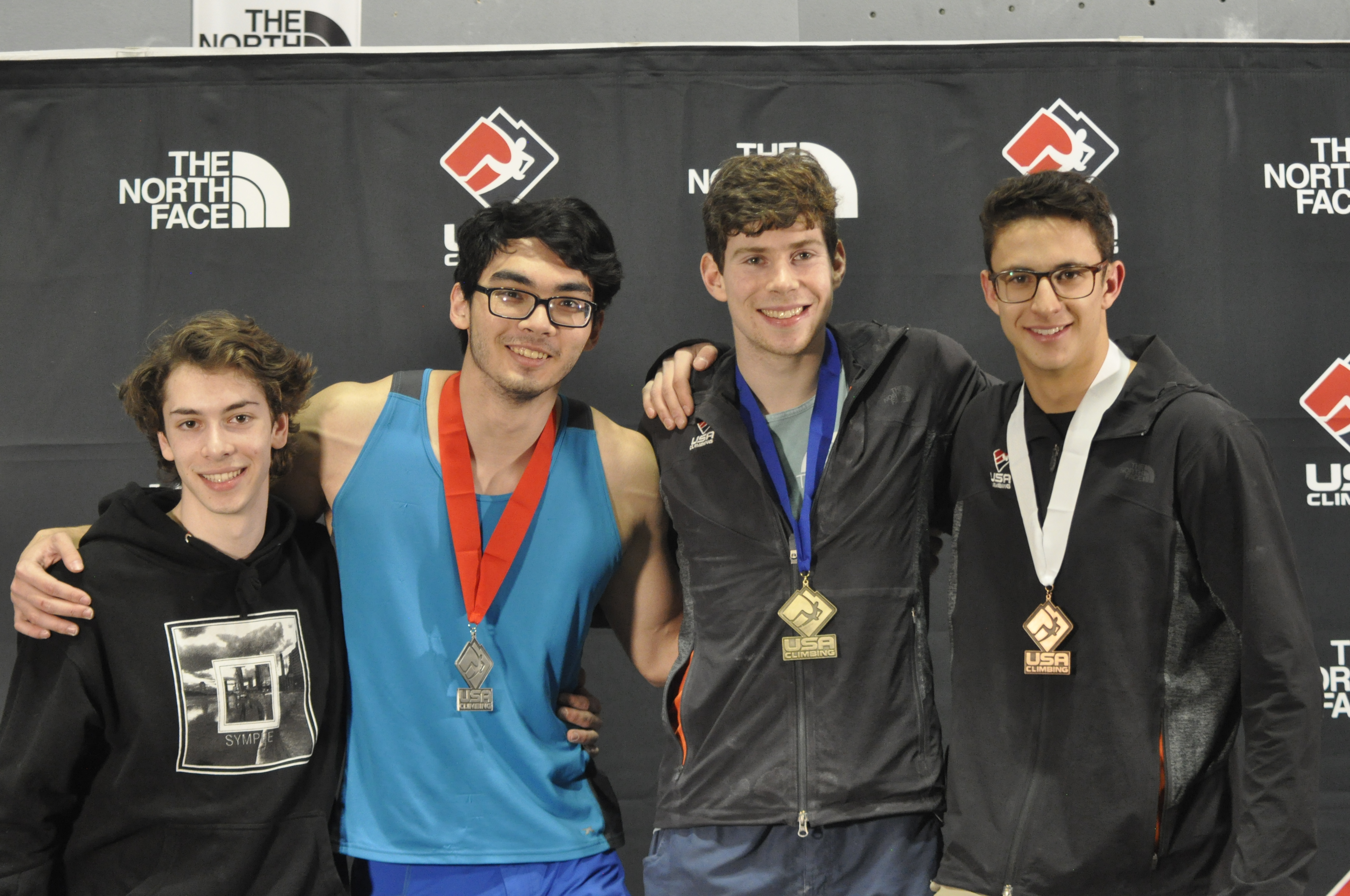 2019 Sport & Speed Open National Championships held on March 8-9, 2019 in Sportrock climbing gym in Alexandria, Virginia. Speed winners during award ceremony.